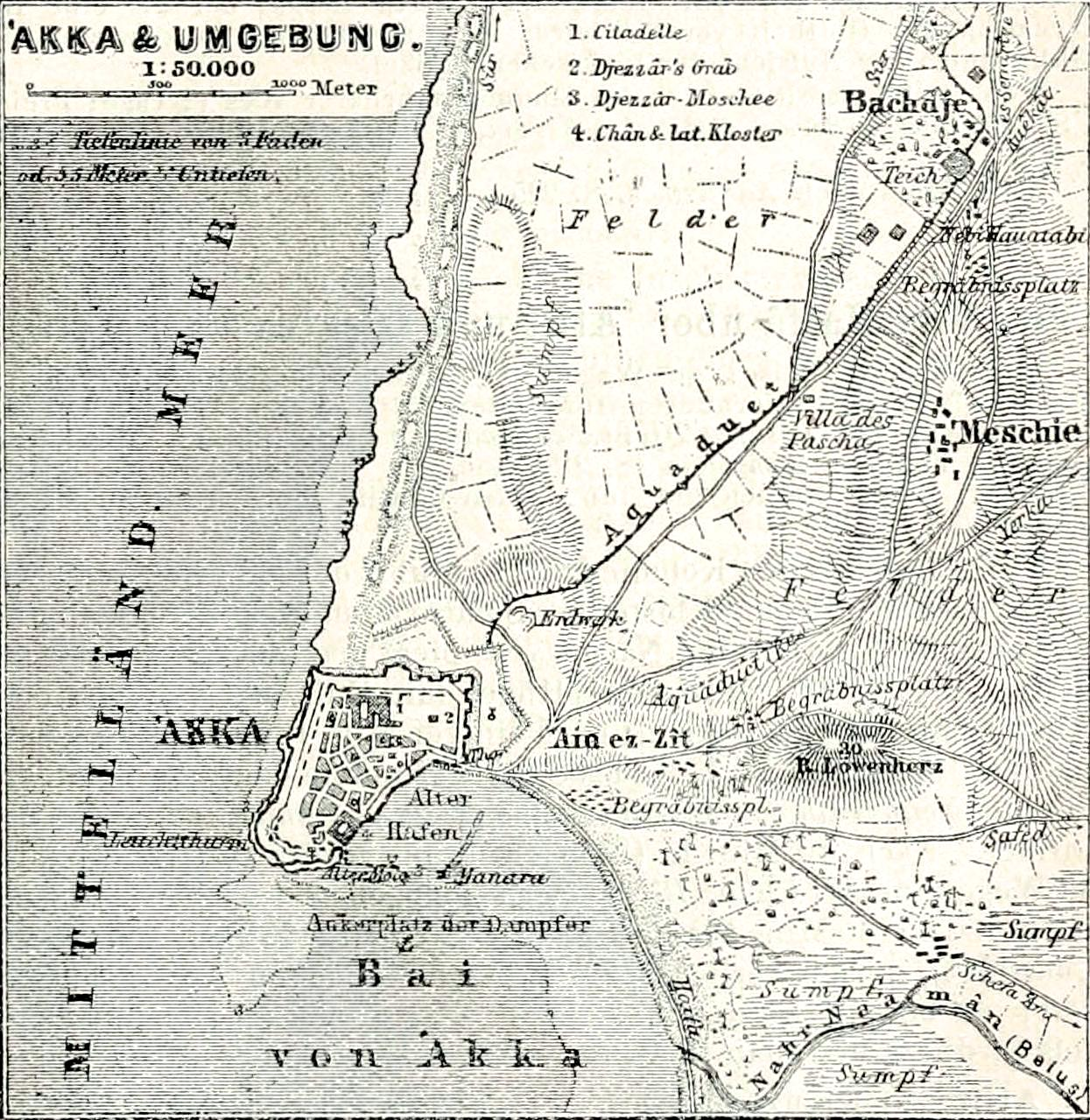 Text Appearing Before Image